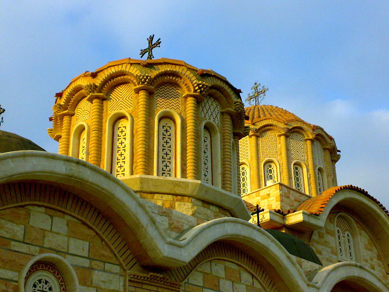 "INTERCESSION MONASTERY" located in Bdebba Village, El Koura Lebanon; photography by Wissam Shekhani